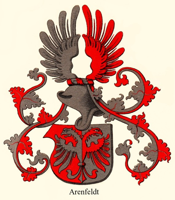 Coat of arms of the Arenfeldt family